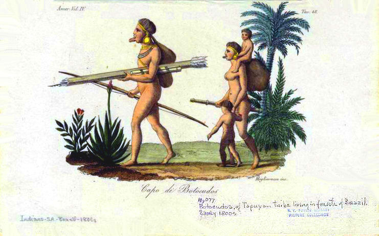 Chief of the Botocudos (Aymborés) Tribe, Brazil, showing tembeitera (lower lip disk), early print, Title Capo de Botocudos.